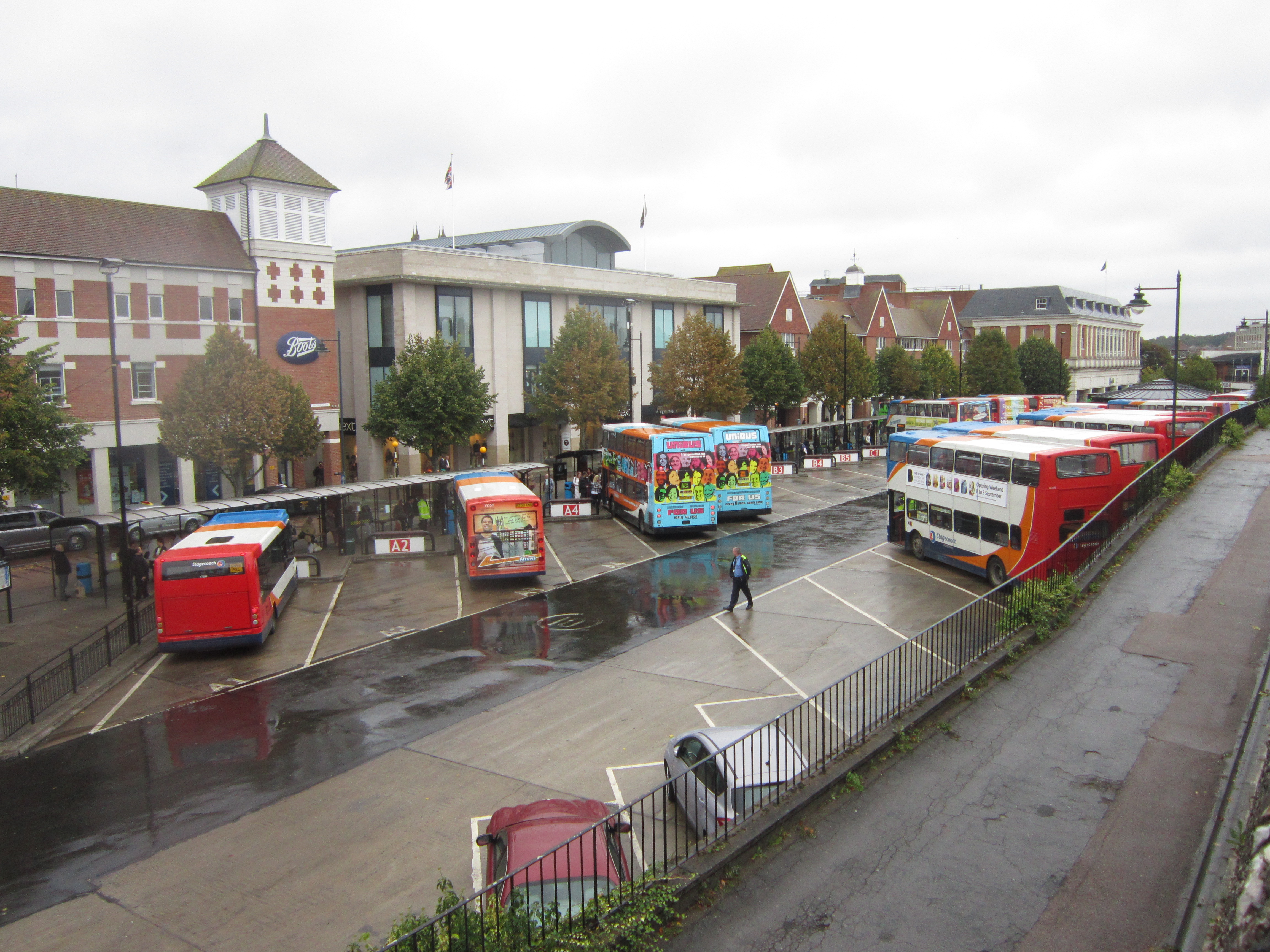 Canterbury Central bus station